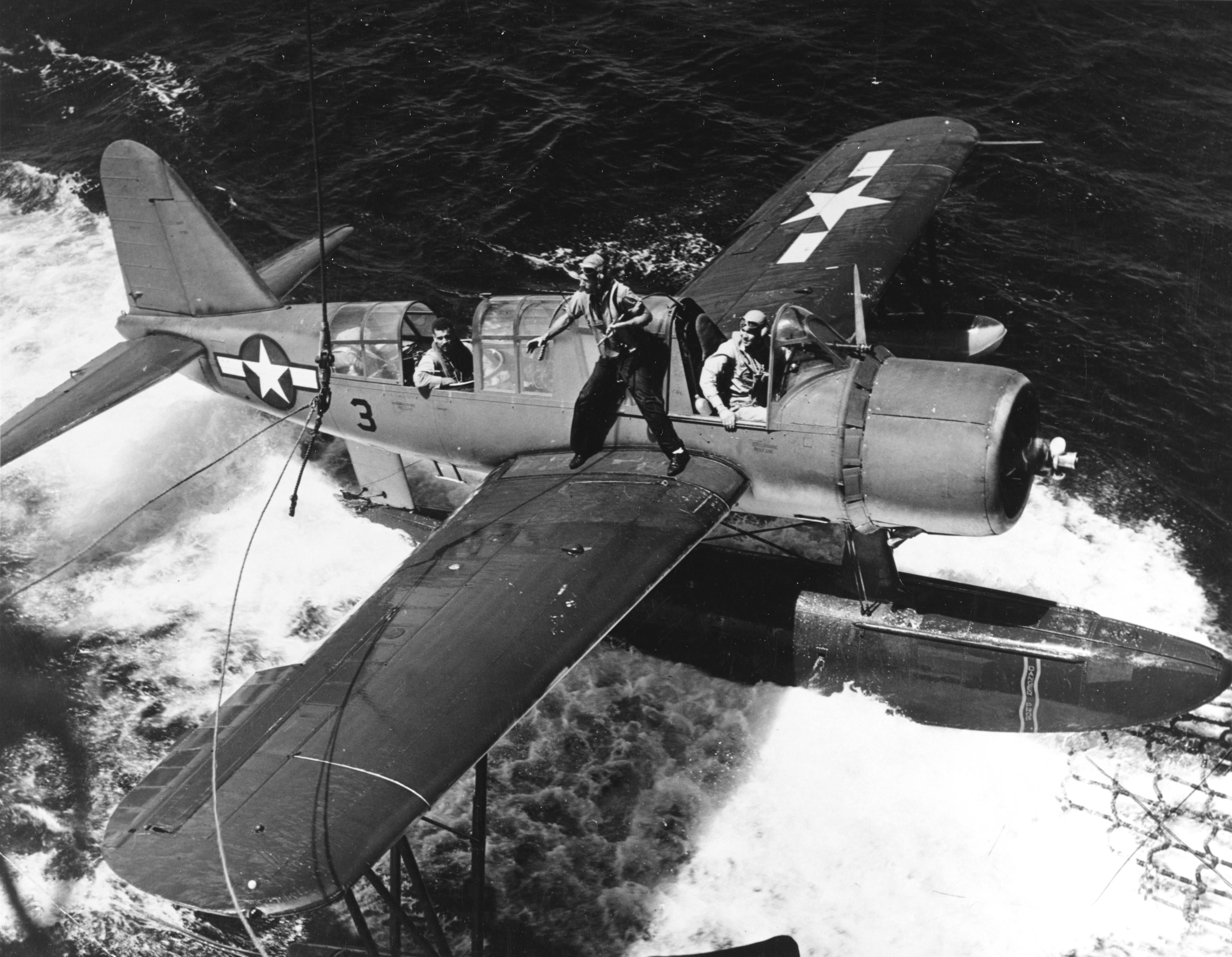 A U.S. Navy Vought OS2U-3 Kingfisher is recovered by the heavy cruiser USS Baltimore (CA-68) after she had rescued Lieutenant (JG) George M. Blair from Truk Lagoon, 18 February 1944. The plane's pilot was Lieutenant (JG) Denver F. Baxter. His radioman, ARMC Reuben F. Hickman, is on the wing, preparing to attach the plane so it can be hoisted on board. Blair's Grumman F6F Hellcat of Fighting Squadron 9 (VF-9), from the aircraft carrier USS Essex (CV-9), had been shot down during the dawn fighter sweep over Truk.